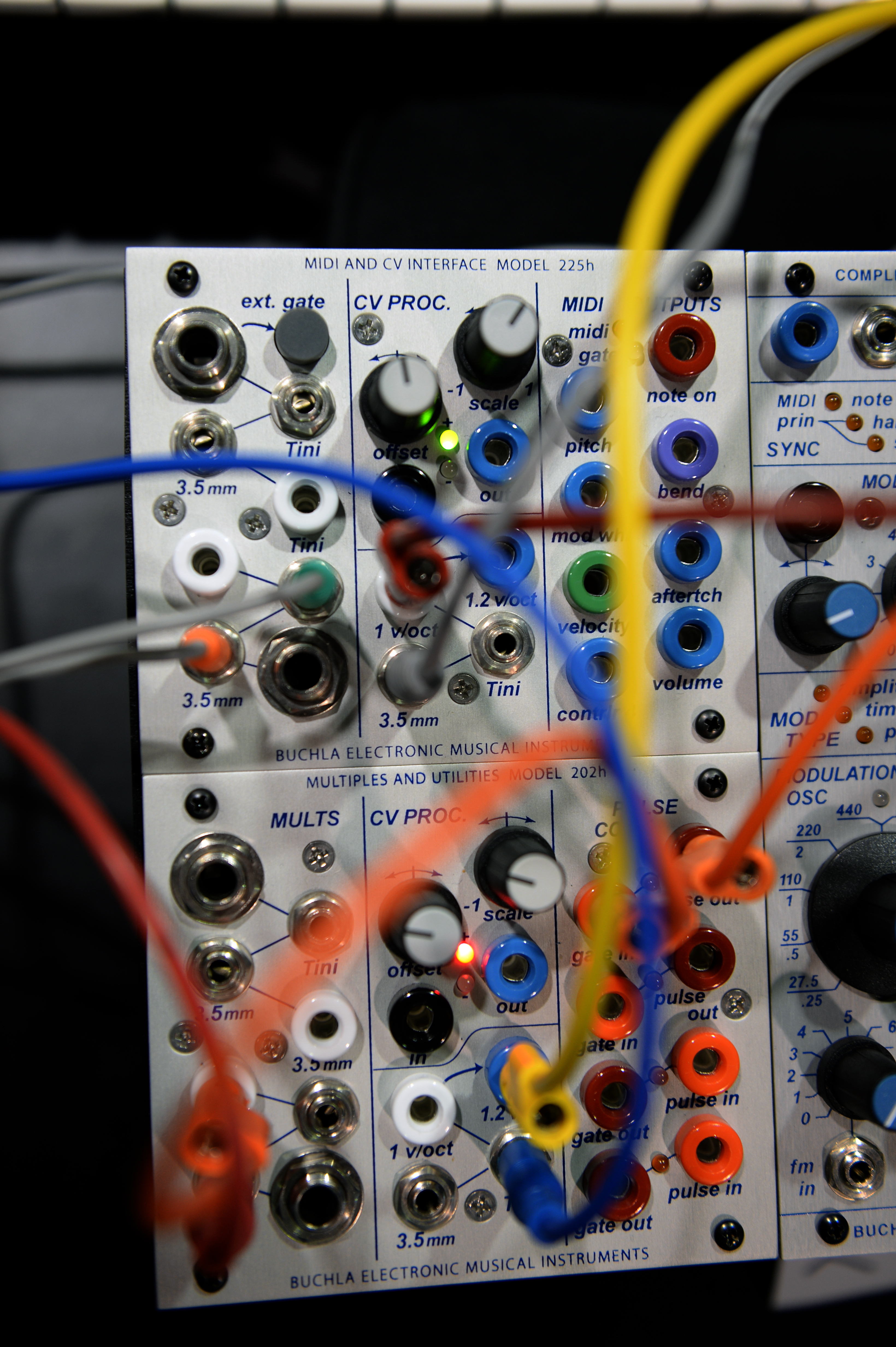 Buchla Electronic Musical Instruments (BEMI) 225h MIDI and CV Interface 202h Multiples and Utilities References 225h MIDI-CV interface. Buchla Electronic Musical Instruments (2015). "Available June 30, 2015." 202h Utilities. Buchla Electronic Musical Instruments (2015). "Available June 30, 2015."